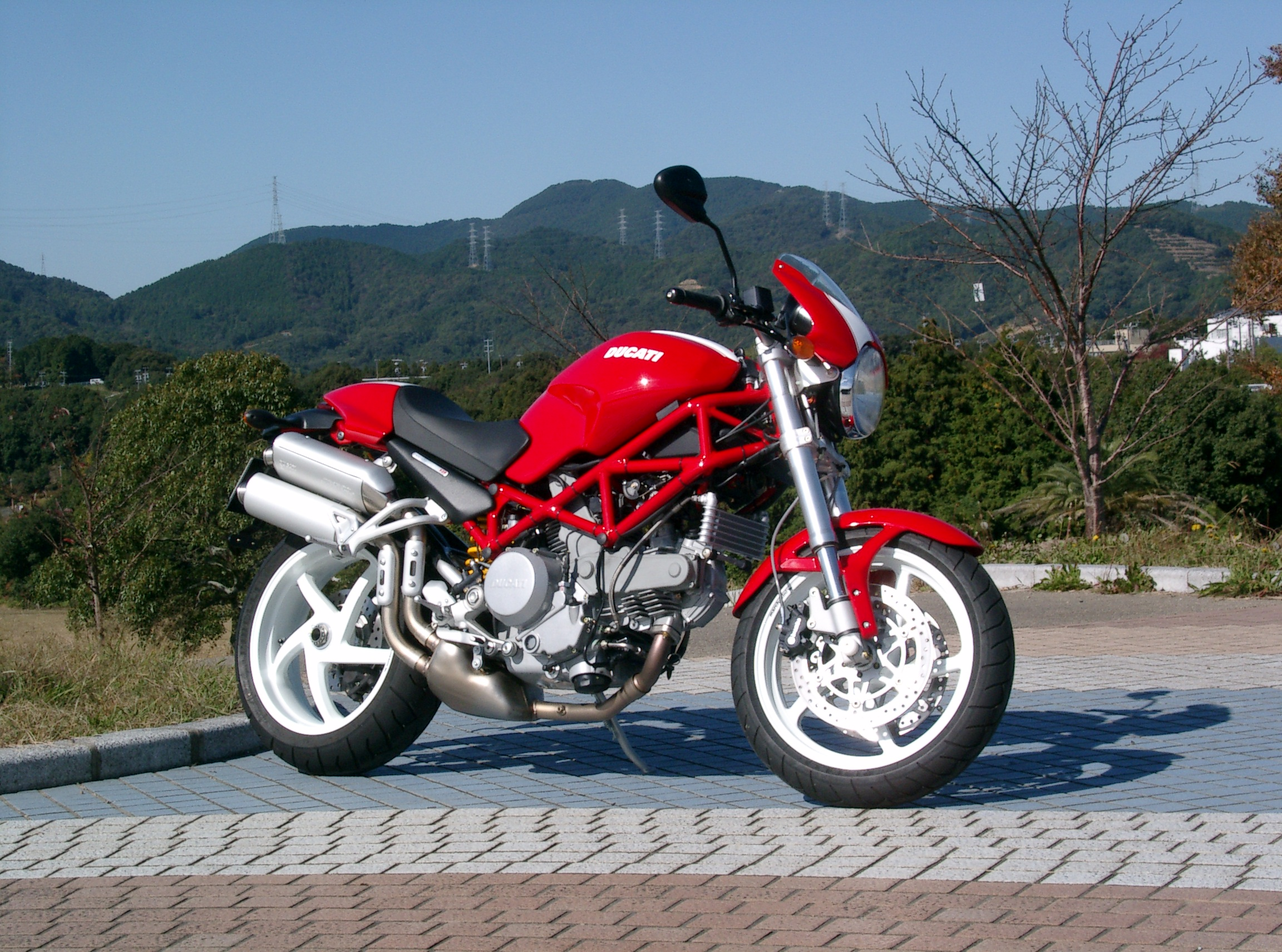 Ducati Monster 800 S2R 2006